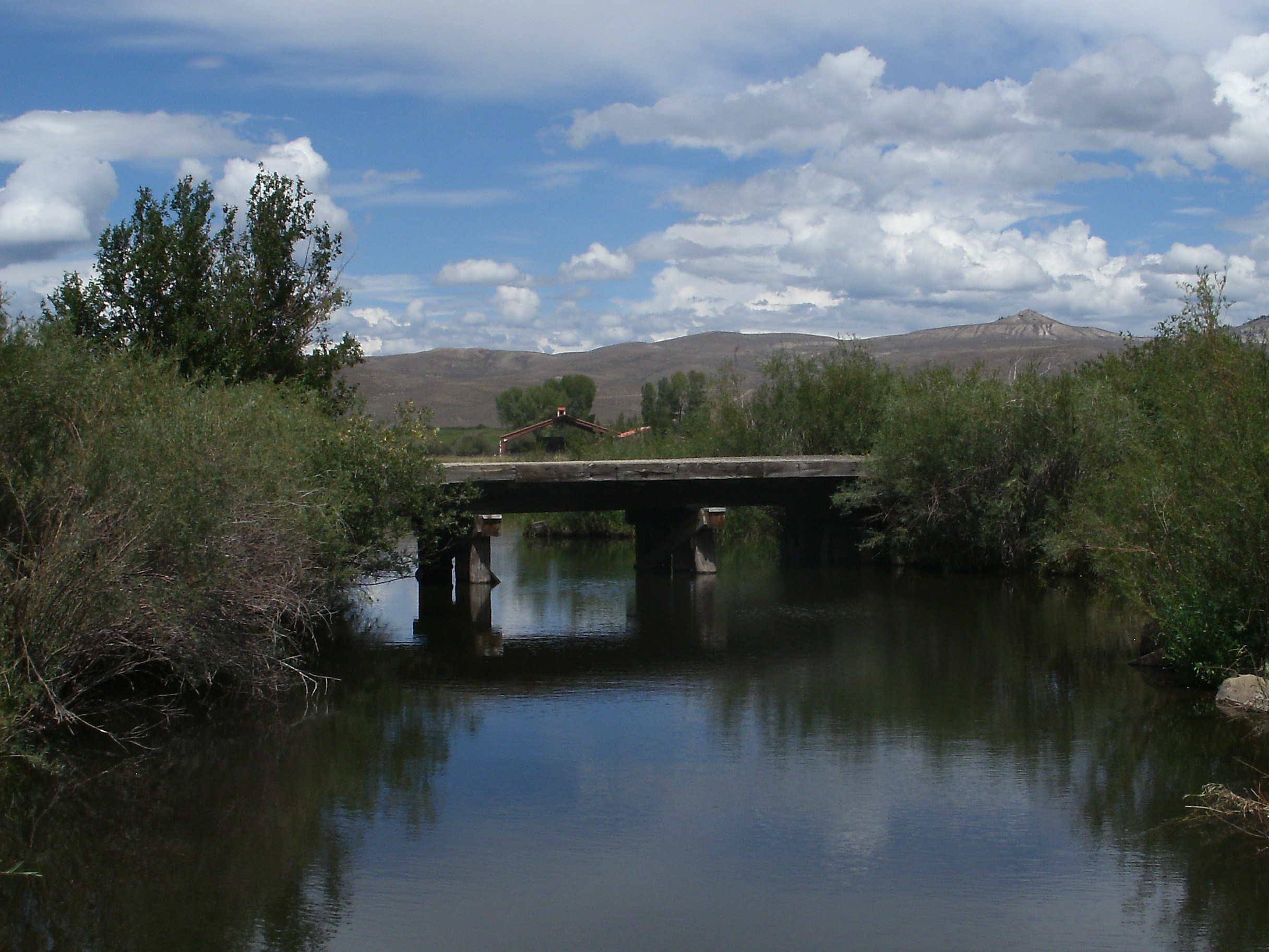 Photo of bridge over Tomichi Creek on the I Bar Ranch property